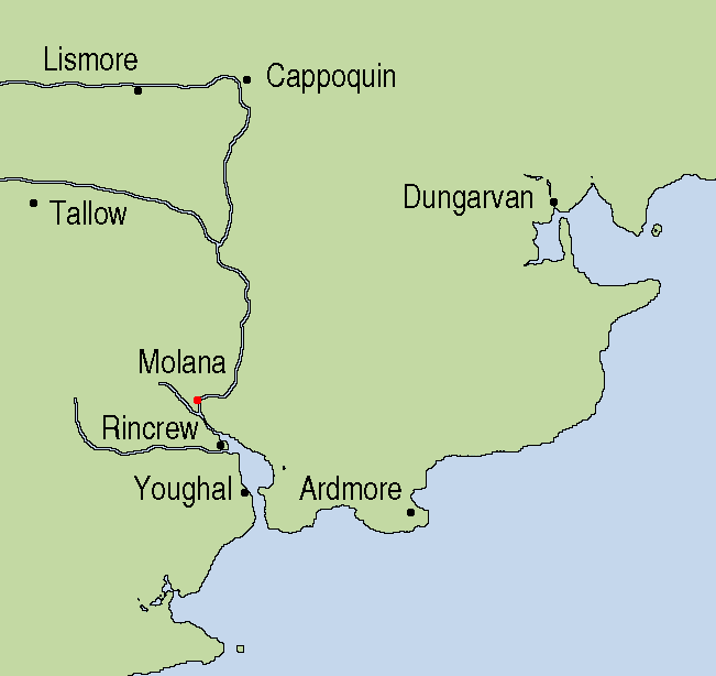 Map of the surrounding area of Molana Priory, County Waterford, Ireland